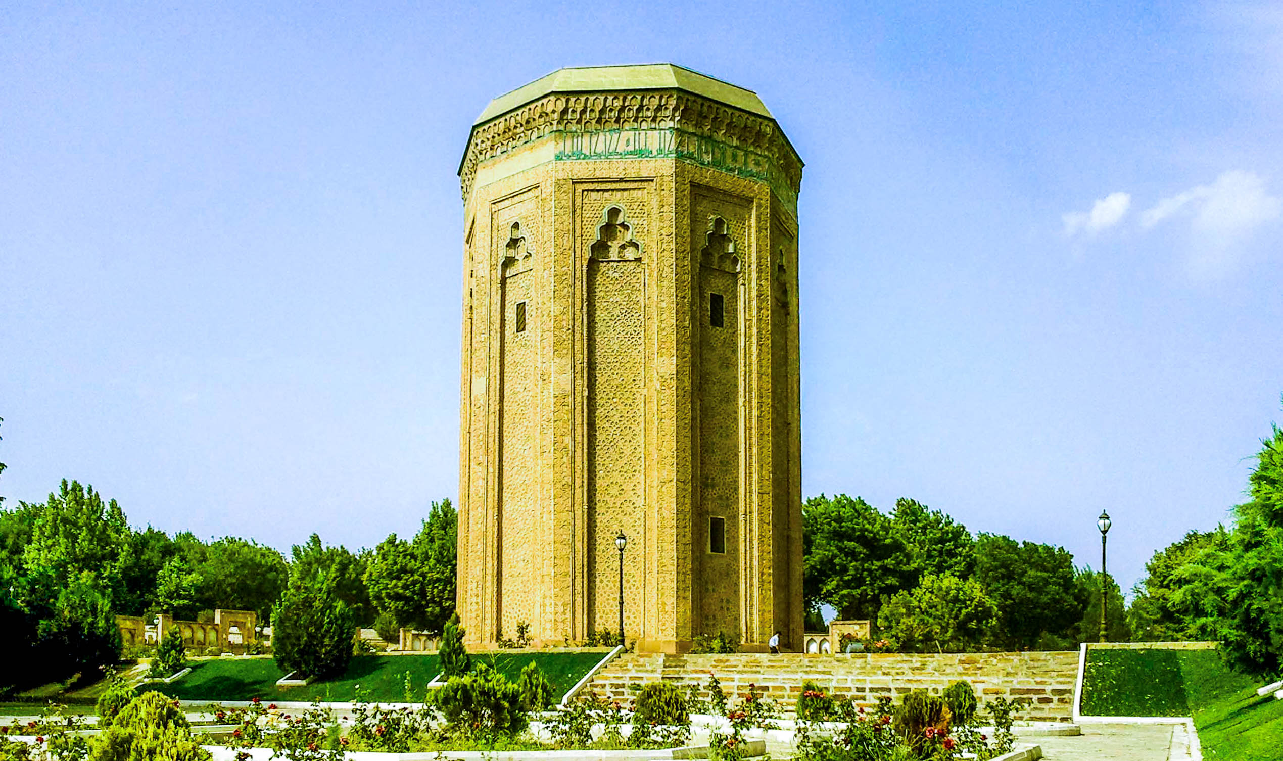 Momina Khatun Tomb in Nakhchivan